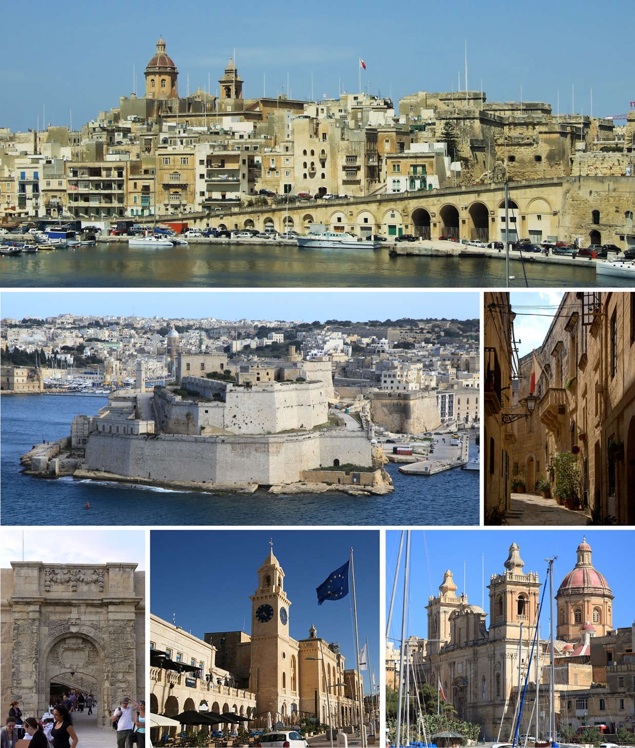 Montage of various landmarks in Birgu, Malta.